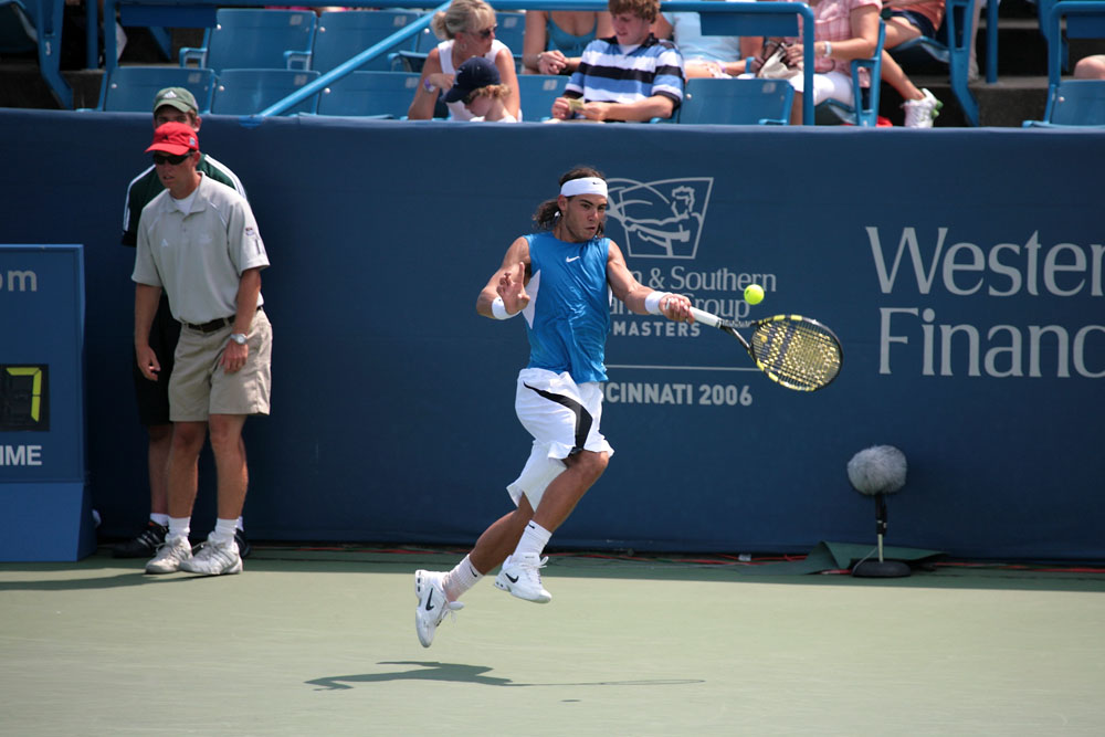 Rafael Nadal vs Tommy Haas 2006 Western & Southern Financial Group Masters Cincinnati, Ohio